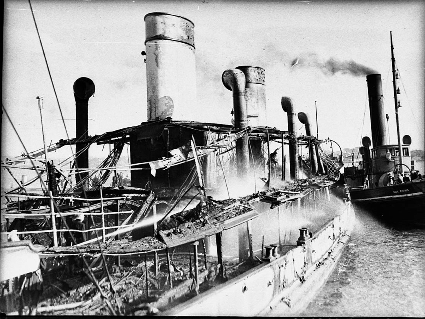 Manly ferry fire ("Bellubera")